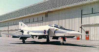 McDonnell Douglas YF-4E Fly-by-Wire (before the canard modification)